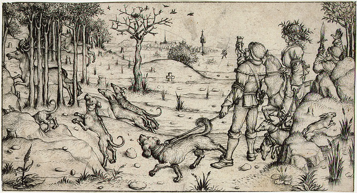 Stag Hunt. 93 × 172 mm. Rijksprentenkabinet, Rijksmuseum Amsterdam (inv.no. RP-P-OB-928).